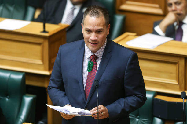 Waiariki MP Tamati Coffey gives his Maiden speech